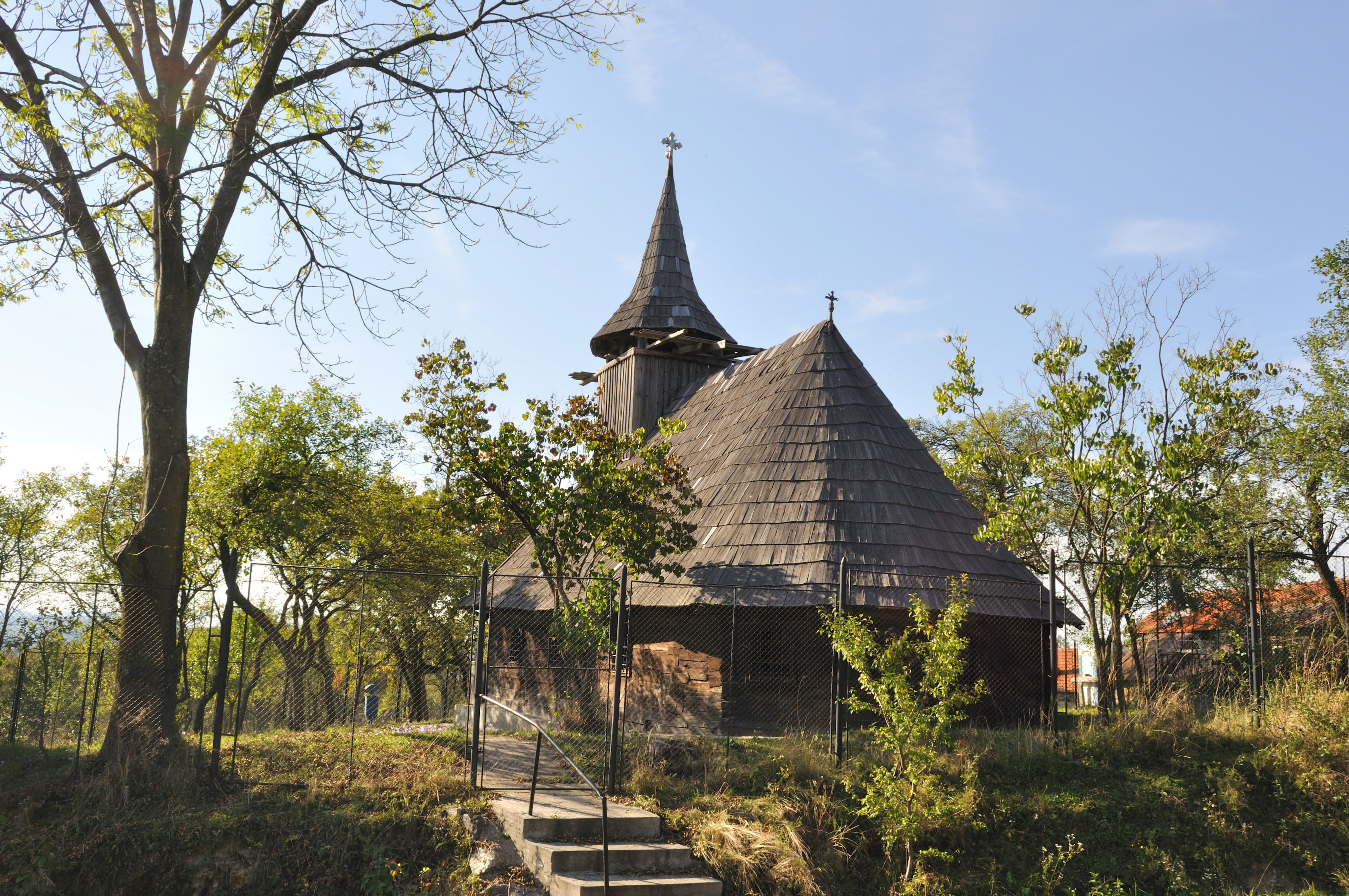 Wooden church in Muncelu Mare , Hunedoara county, Romania